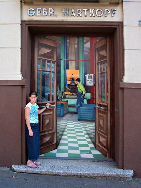 Wallpainting on wall in Solingen, Germany